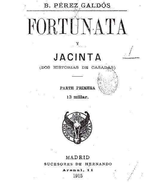 Title Page of the Edition (1915) of 'Fortunata y Jacinta' (First part)